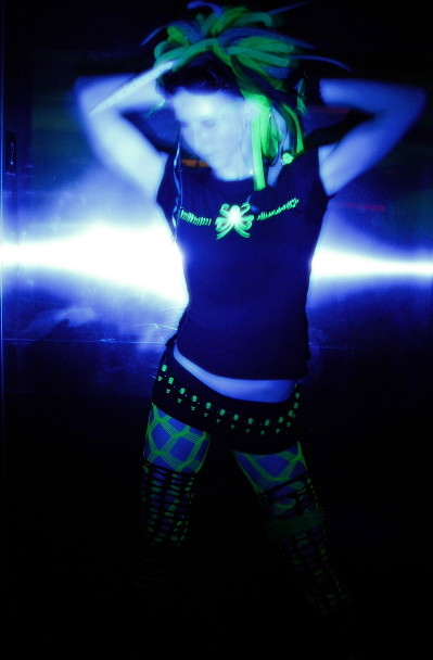 Jenny Atomik, Cyberpunk Designer, San Francisco, 2008